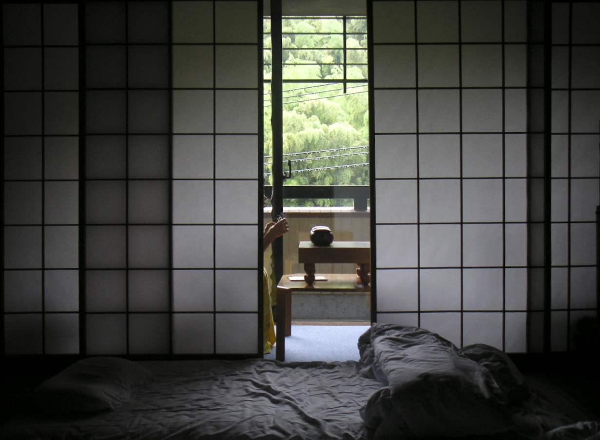 A room of a ryokan at Yugawara Onsen, Japan.